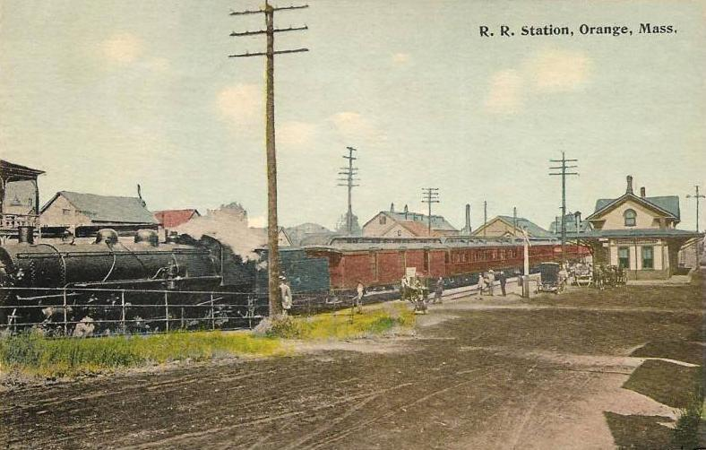 Railroad station, Orange, Massachusetts